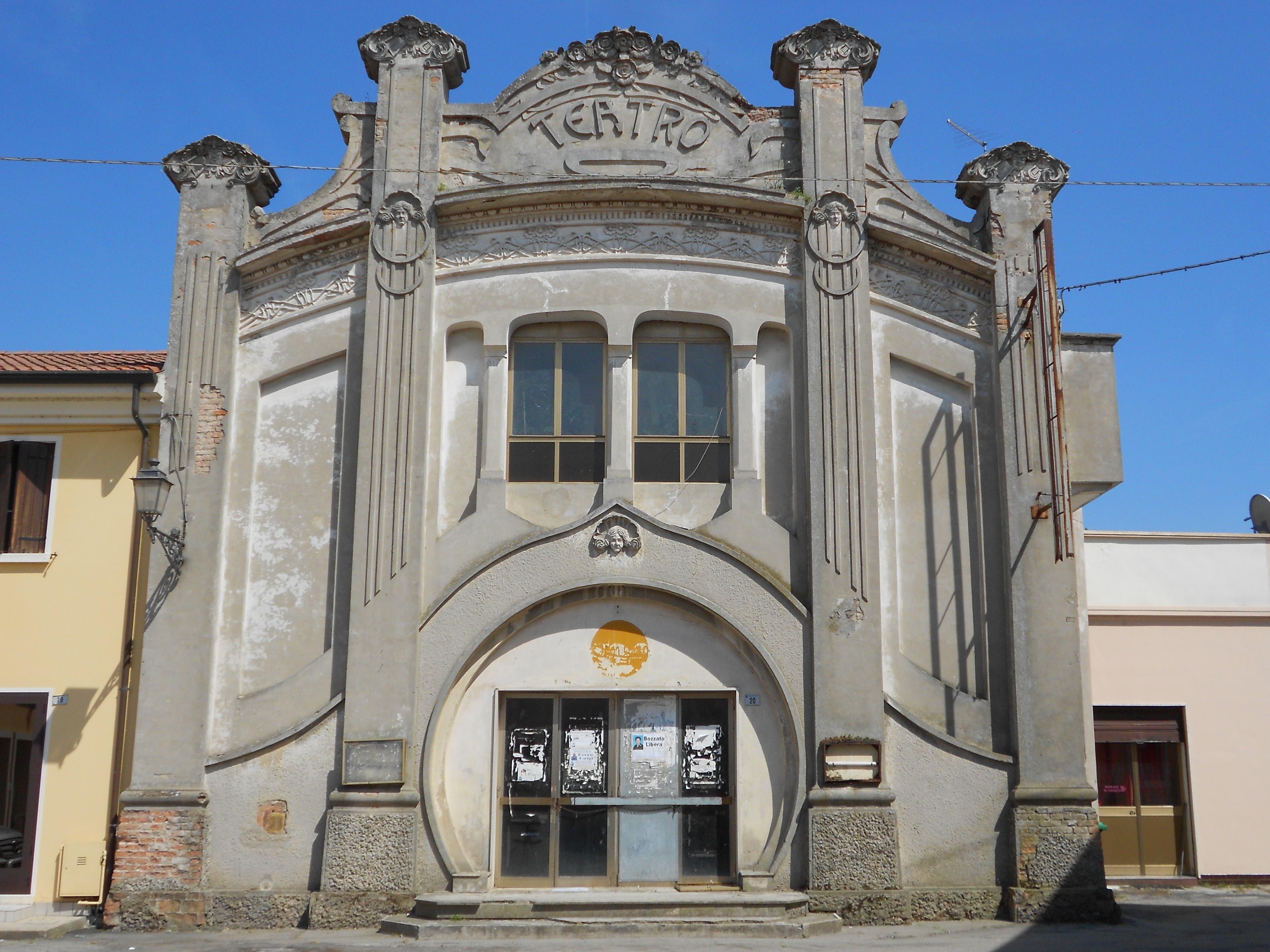 Zago theatre, Loreo, Italy